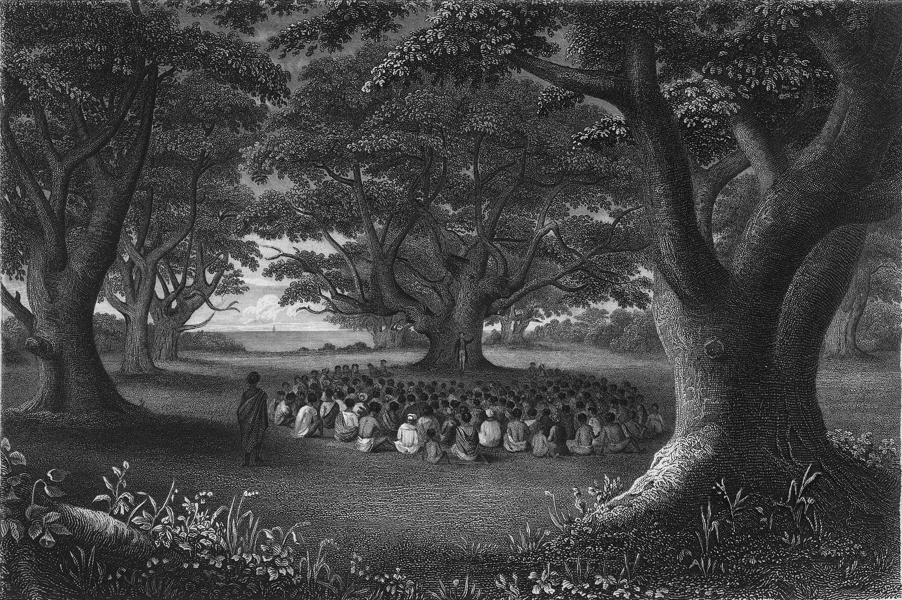 A New England missionary preaches in a kukui grove in Hawai'i, as depicted in an engraving appearing in Wilkes' Narrative of the United States Exploring Expedition.